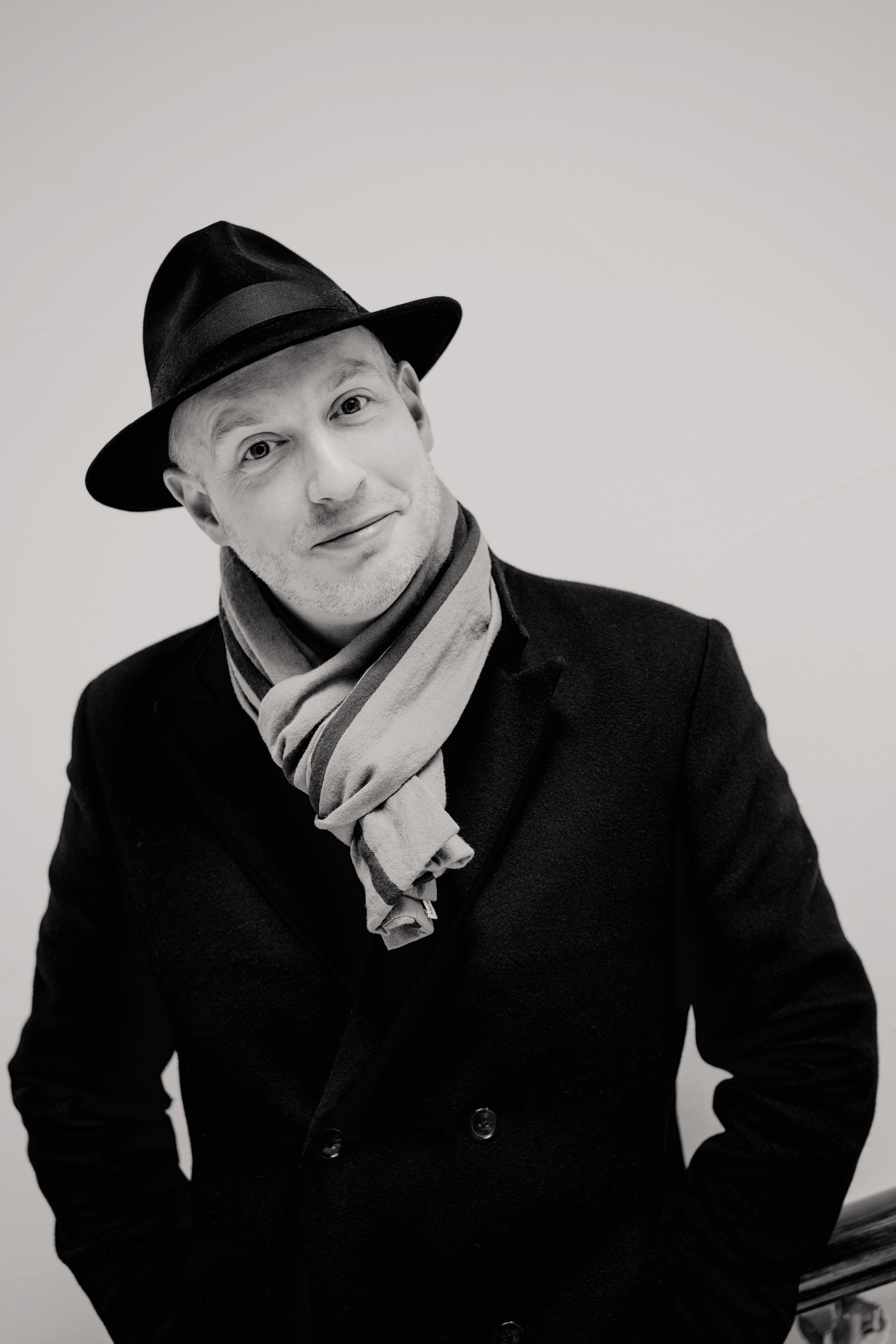 James Burton portrait by Marco Borggreve